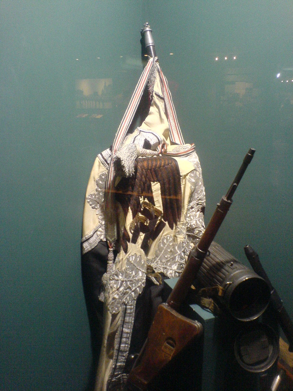 German ww2 Heer infantry regiment banner - bulgarian trophy, National milittary-history museum in Sofia, Bulgaria more info